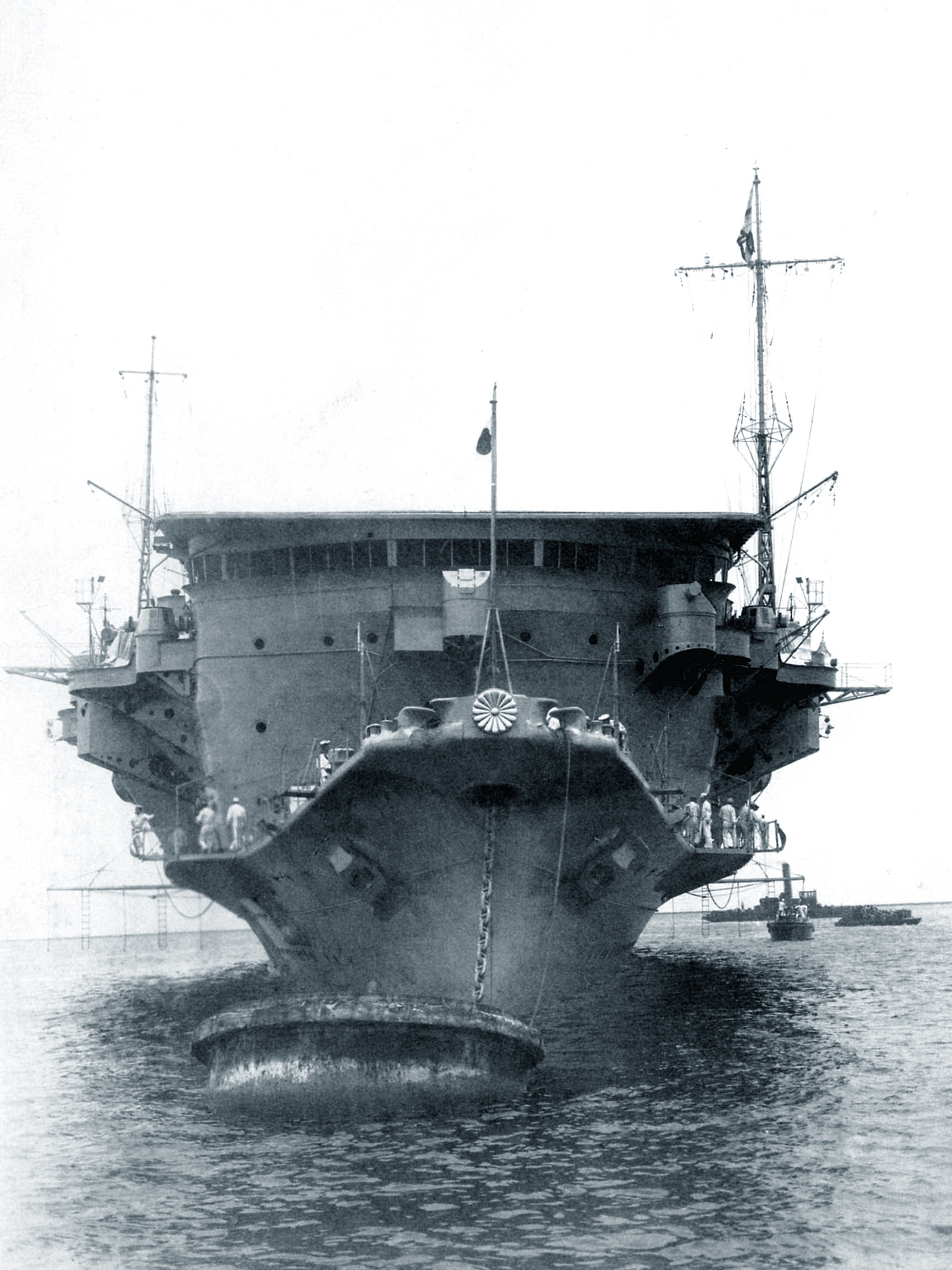 龍驤 日本海軍航空母艦。横須賀軍港に停泊中の龍驤を前面から撮影した写真。 Light aircraft carrier Ryūjō at anchor in Yokosuka